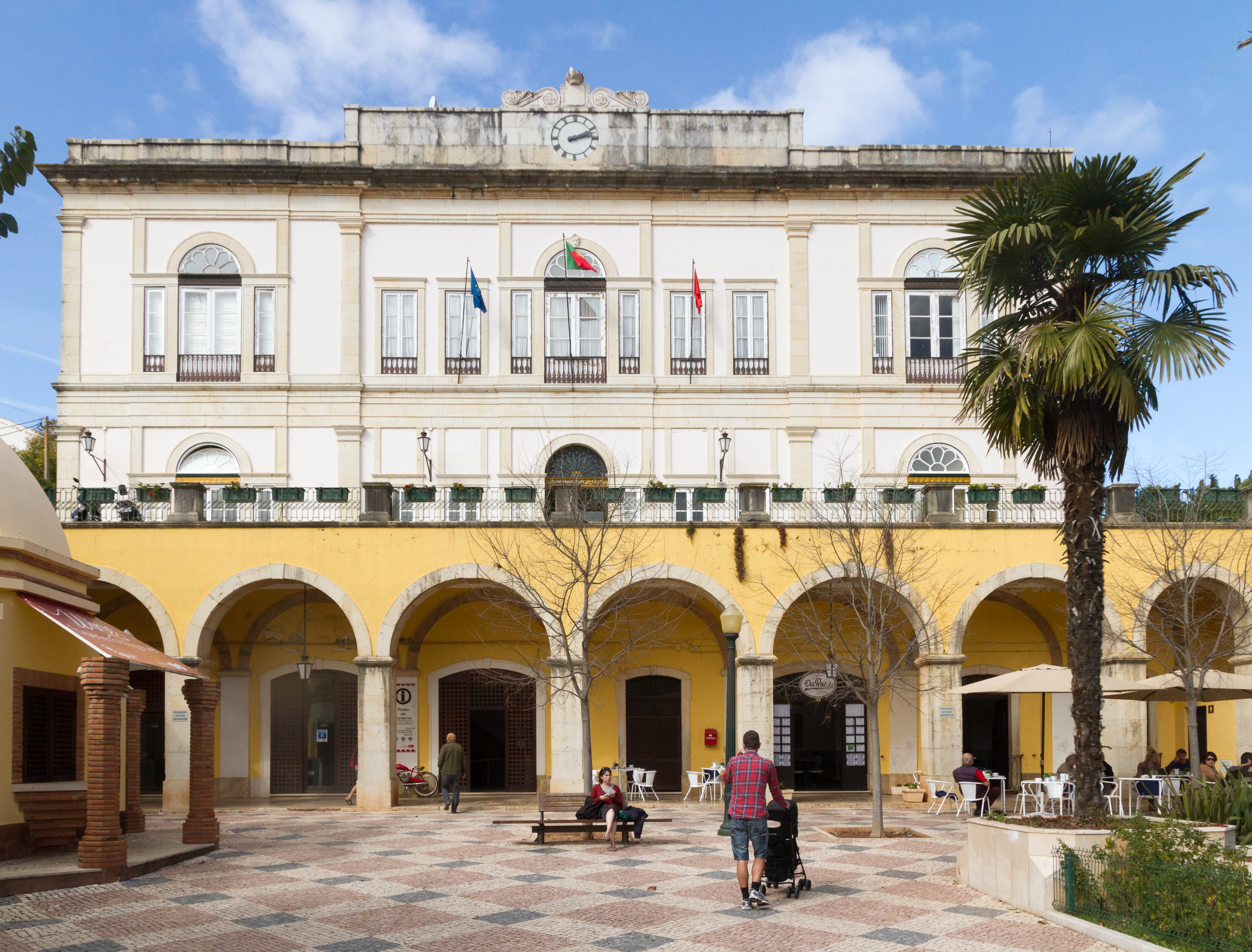 The making of this document was supported by the Community-Budget of Wikimedia Germany. Silves - Town Hall